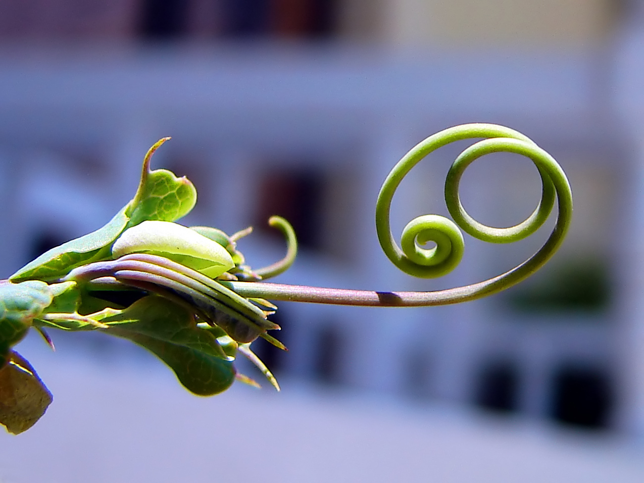 The apartment garden. Added to Flickr Explore (interestingness) page of 25 June 2006.